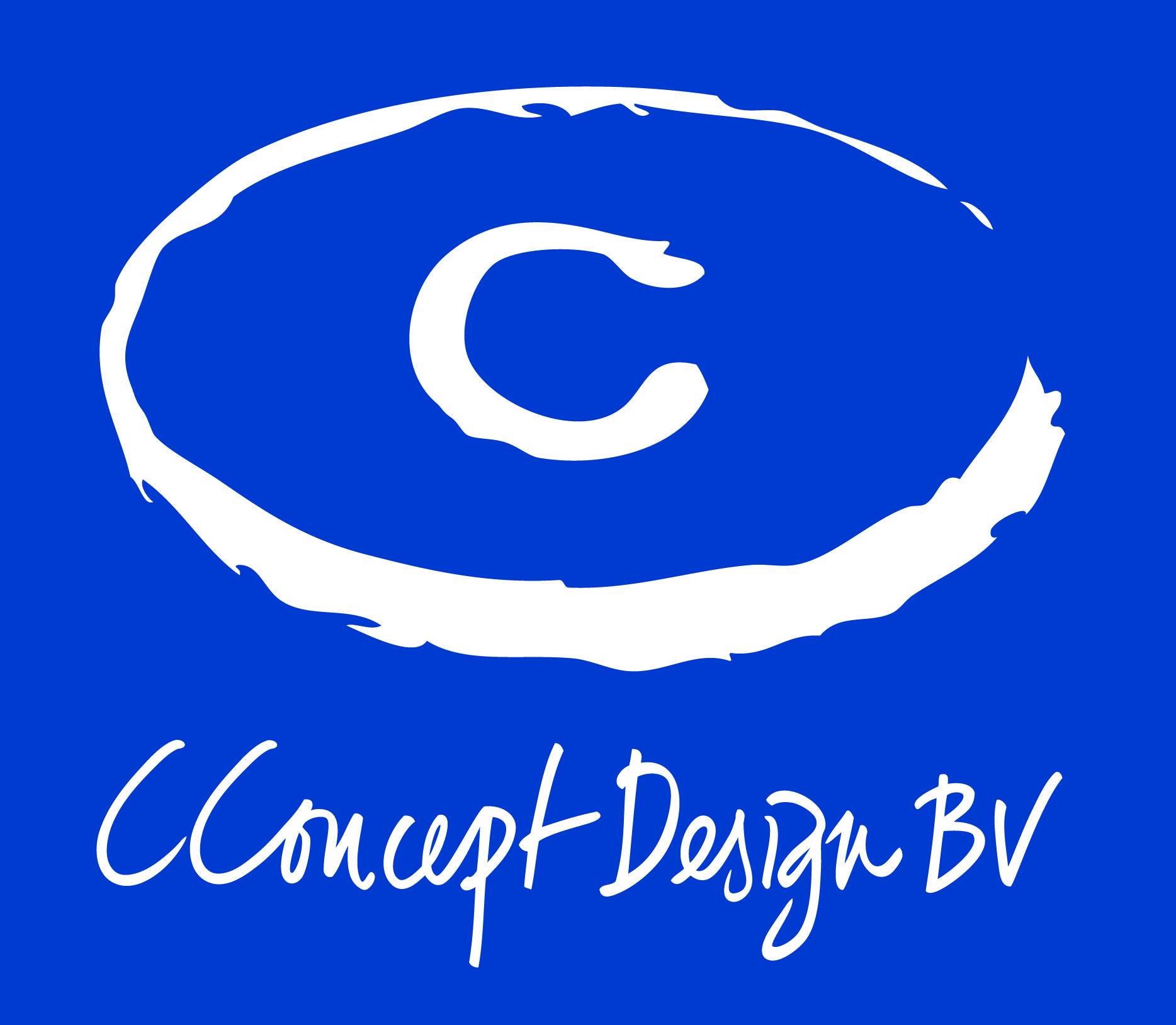 Logo for the architectural design firm C Concept Design B.V. Depticts the letter C inside of a circle with strokes imitating a sloppy paintbrush. The words "C Concept Design BV" appear underneath in font made to appear as handwriting.